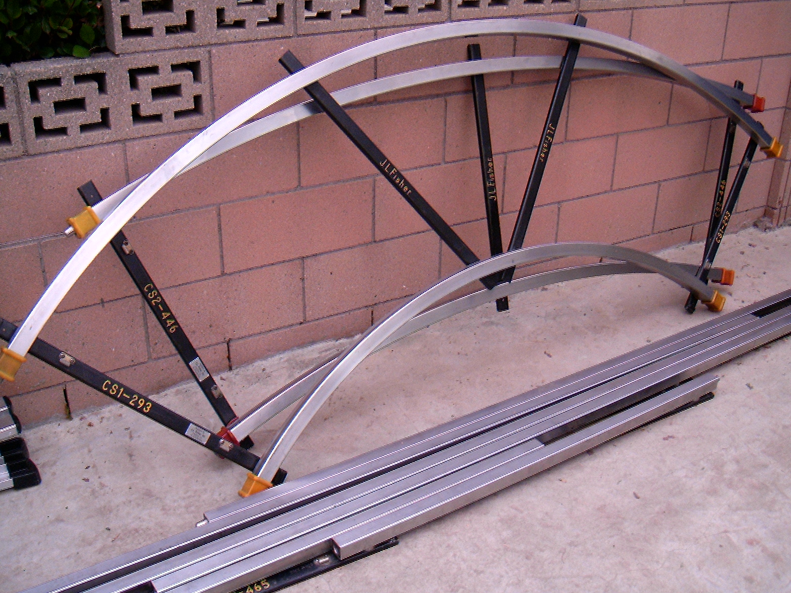 Camera dolly track from J.L. Fisher. There is a piece of 45° curved track, 90° curved track, and straight track in 4, 8, and 10 foot lengths (folded at the bottom).